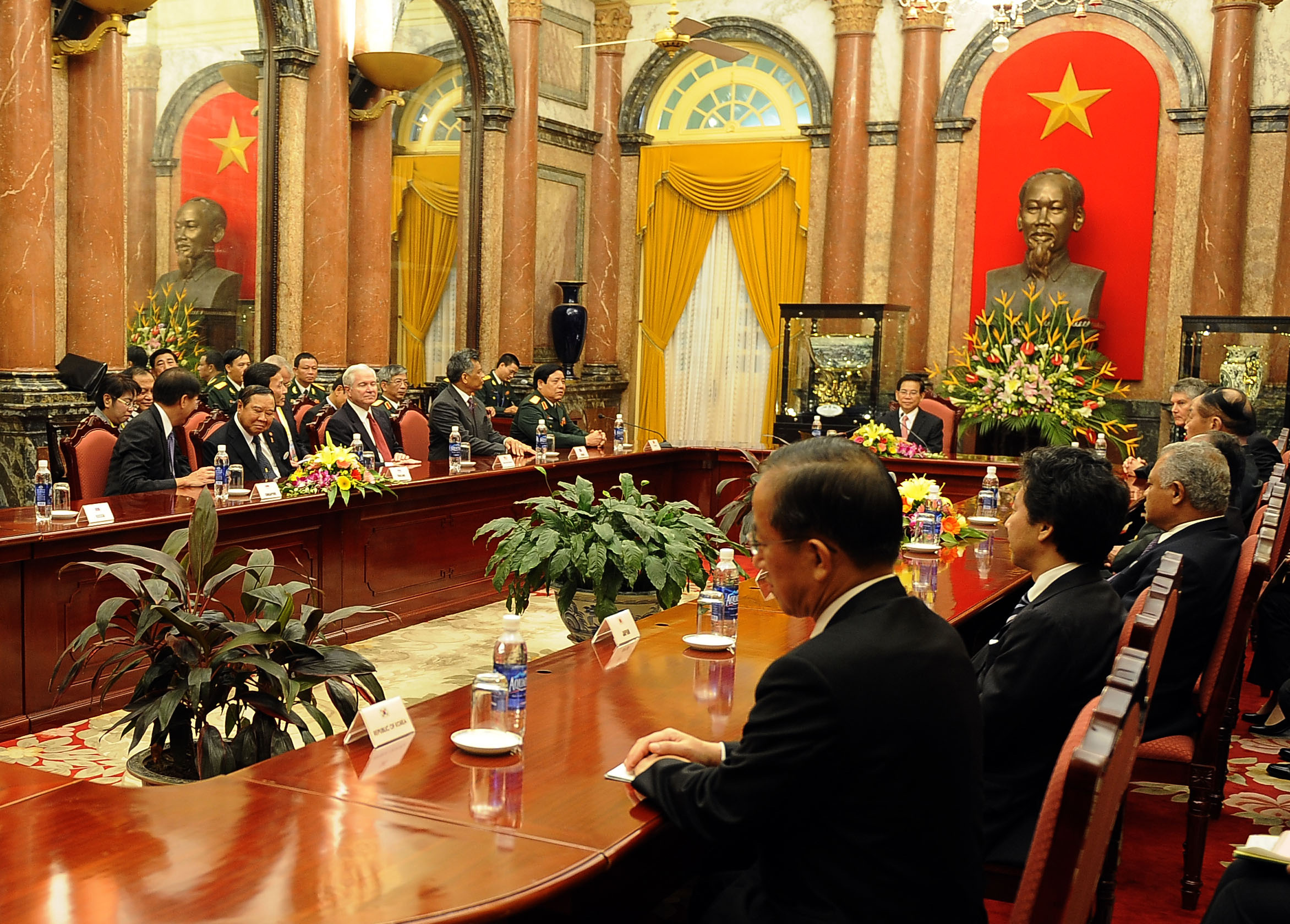 Secretary of Defense Robert M. Gates and other defense ministers meet with Vietnamese President Nguyen Minh Triet in the Presidential Palace during the Association of Southeast Asian Nations Defense Ministers' Meeting Retreat in Hanoi, Vietnam, on Oct. 12, 2010.